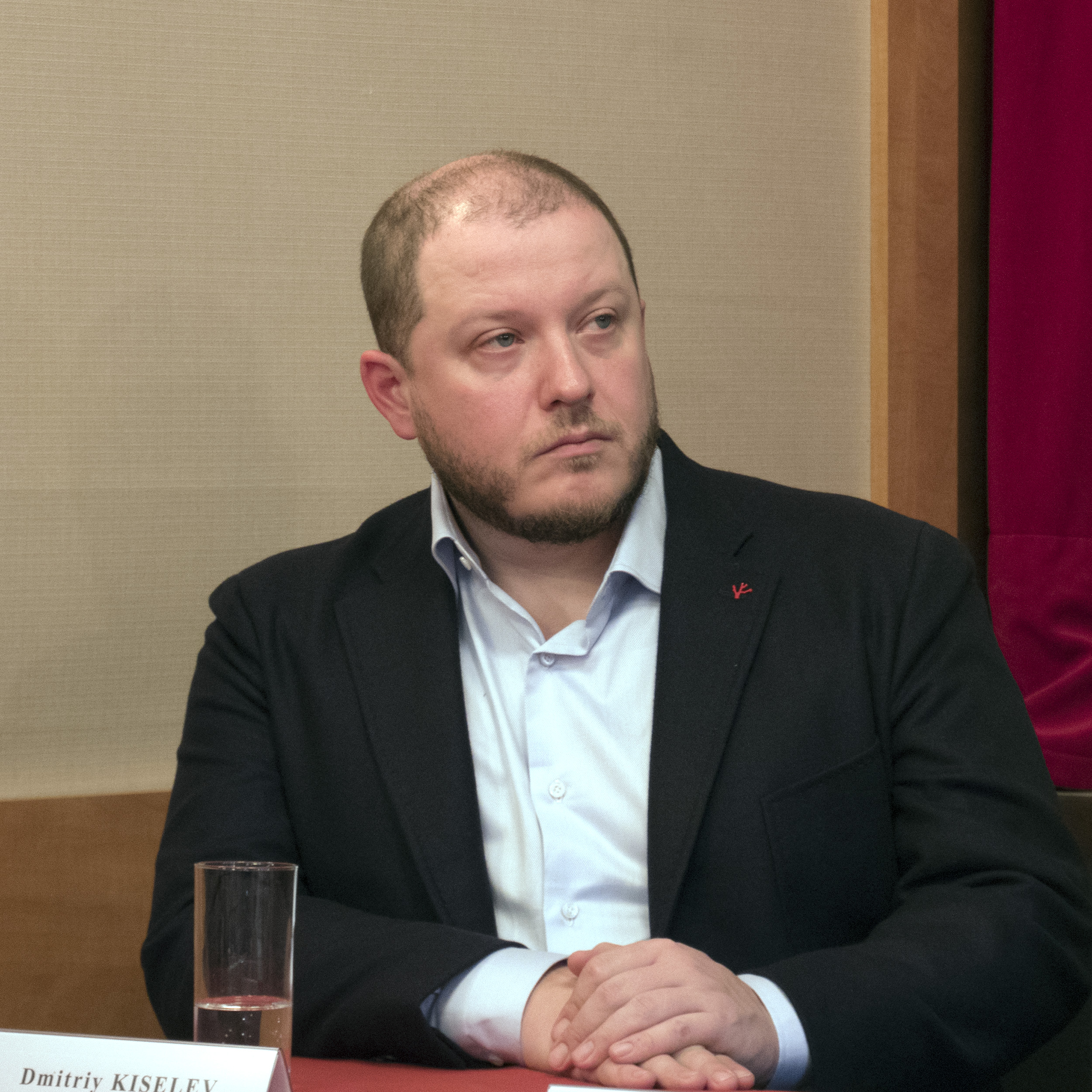 Film director Dmitriy Kiselev at a press conference about his film Age of Pioneers in Vienna, Austria, 30.11.2017.